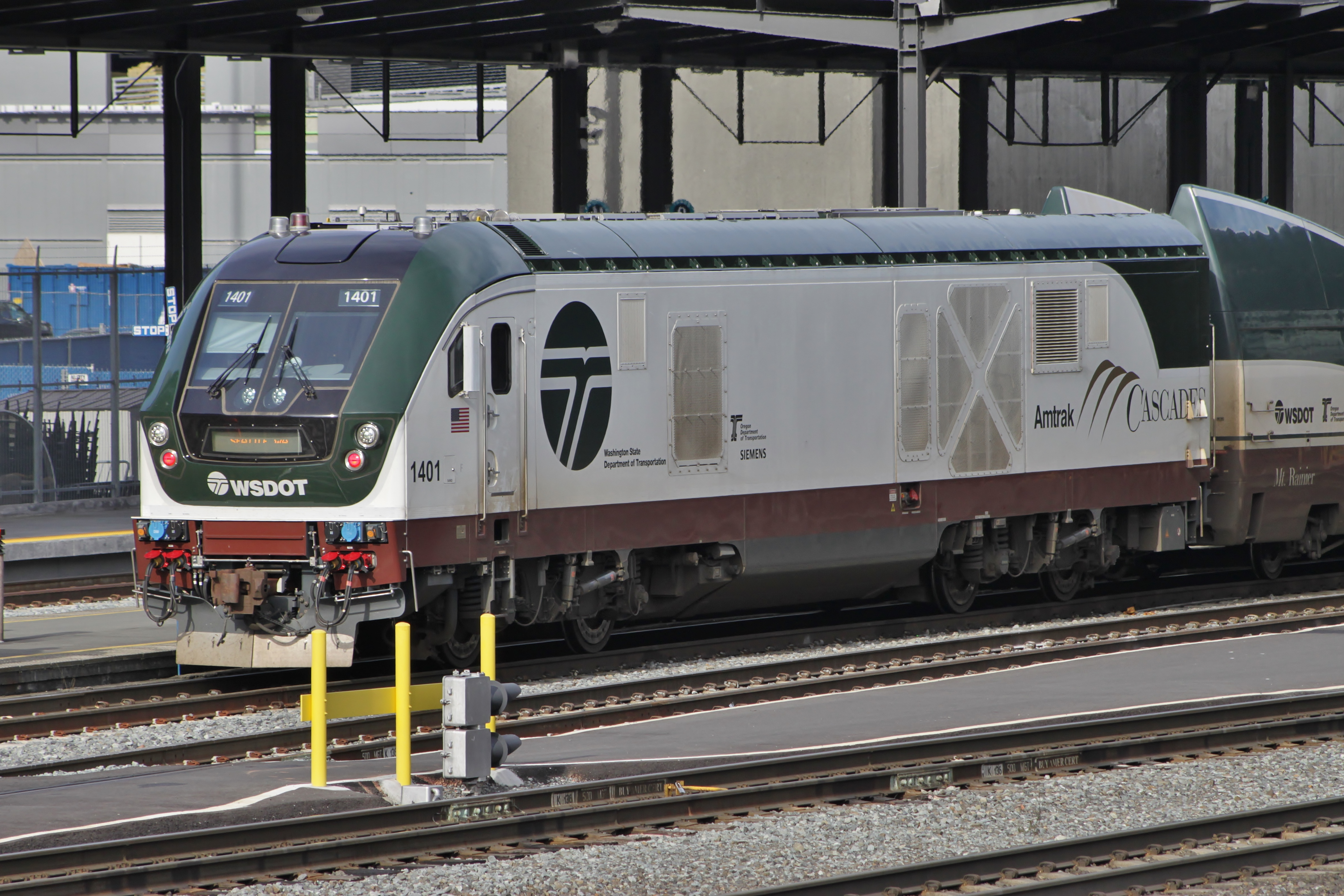 A Siemens Charger engine used for Amtrak Cascades, seen at King Street Station in Seattle, Washington.